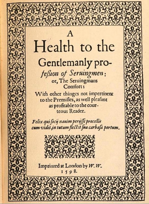 Title page of Gervase Markham's "A Health to the Gentlemanly Profession of Servingmen"